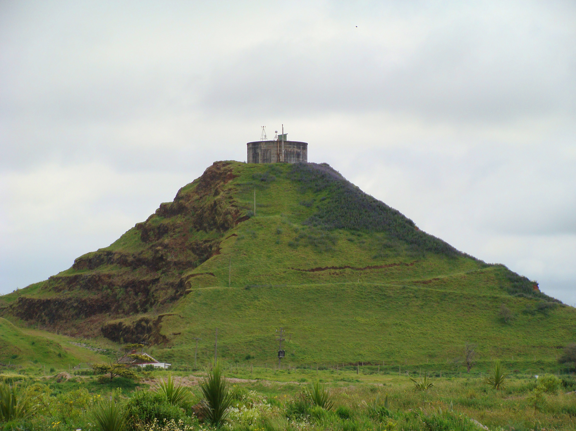 Matukutūreia or McLaughlin's Hill, an extinct volcano in Auckland, New Zealand